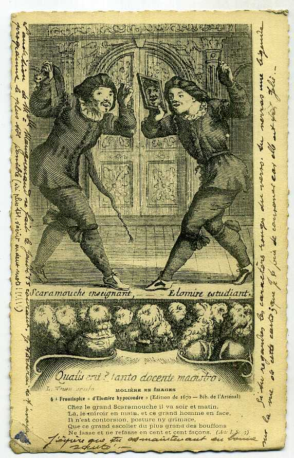 Scaramouche (Tiberio Fiorilli) teaching Élomire (Molière) his student, frontispiece to Le Boulanger de Chalussay's attack on Molière